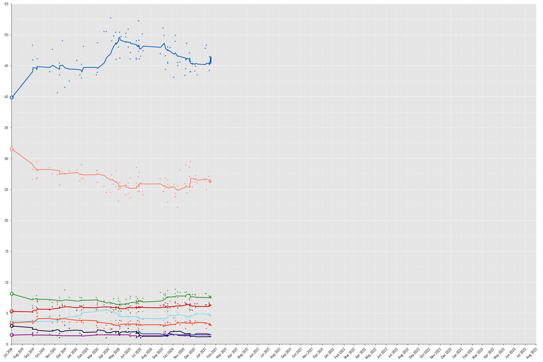 10-point average trend line of poll results from 7 July 2019 to the present day, with each line corresponding to a political party. ND Syriza KINAL KKE EL MeRA25 XA